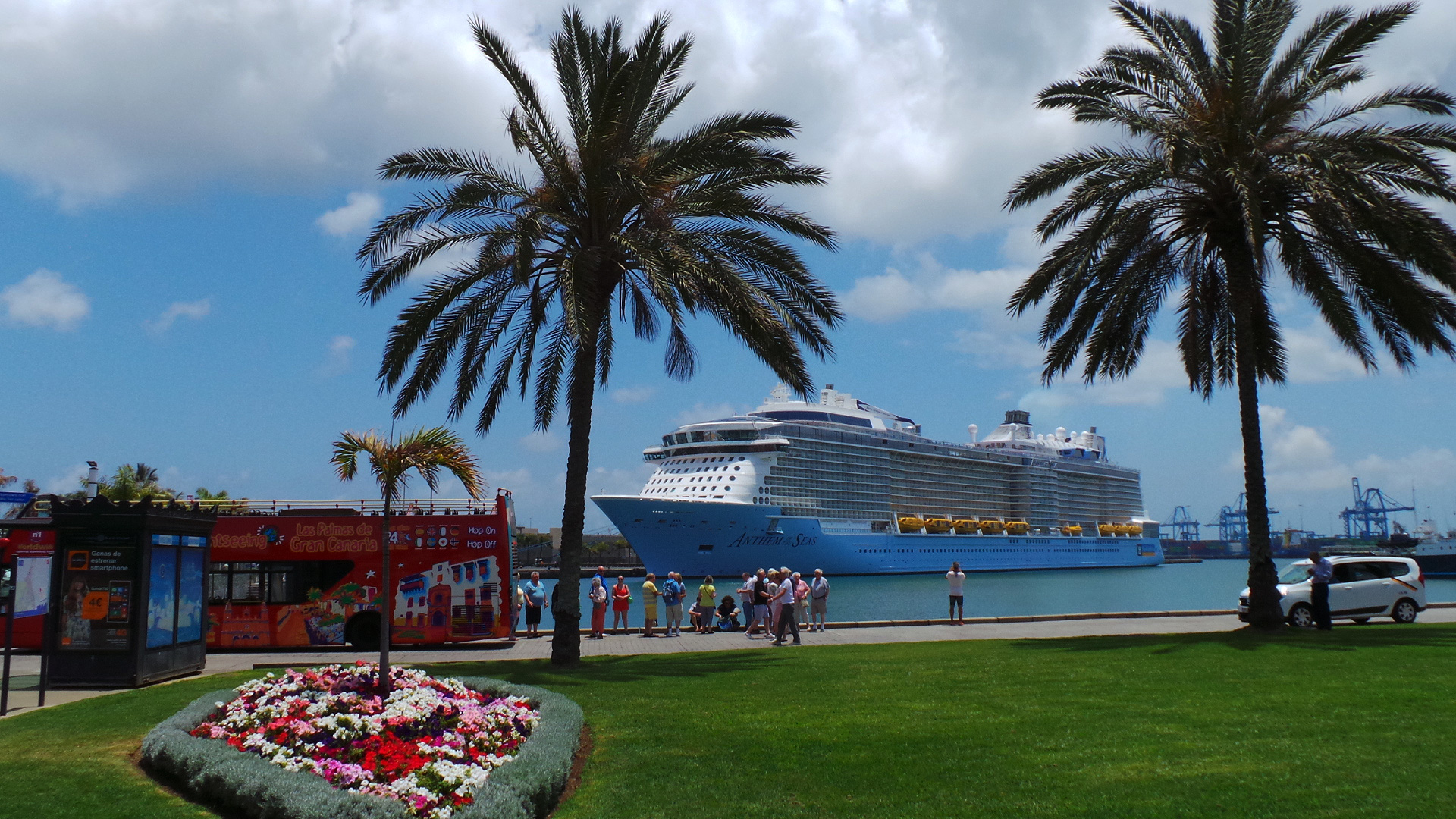 MS Anthem of the Seas docked at the Santa Catalina cruise terminal in Las Palmas, Canary Islands on 27 May 2015.